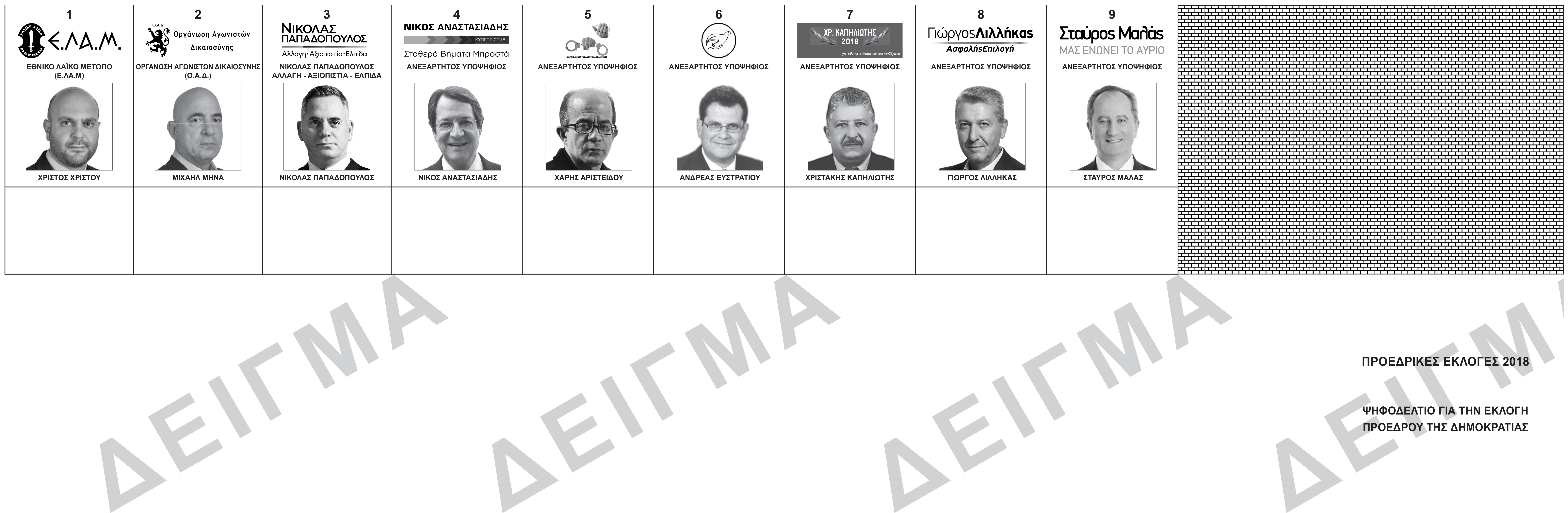 The front side (top) and back side (bottom) of the ballot used for the first round of the 2018 Cypriot presidential election.